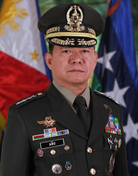 Official portrait of General Eduardo M. Año, AFP Chief of Staff